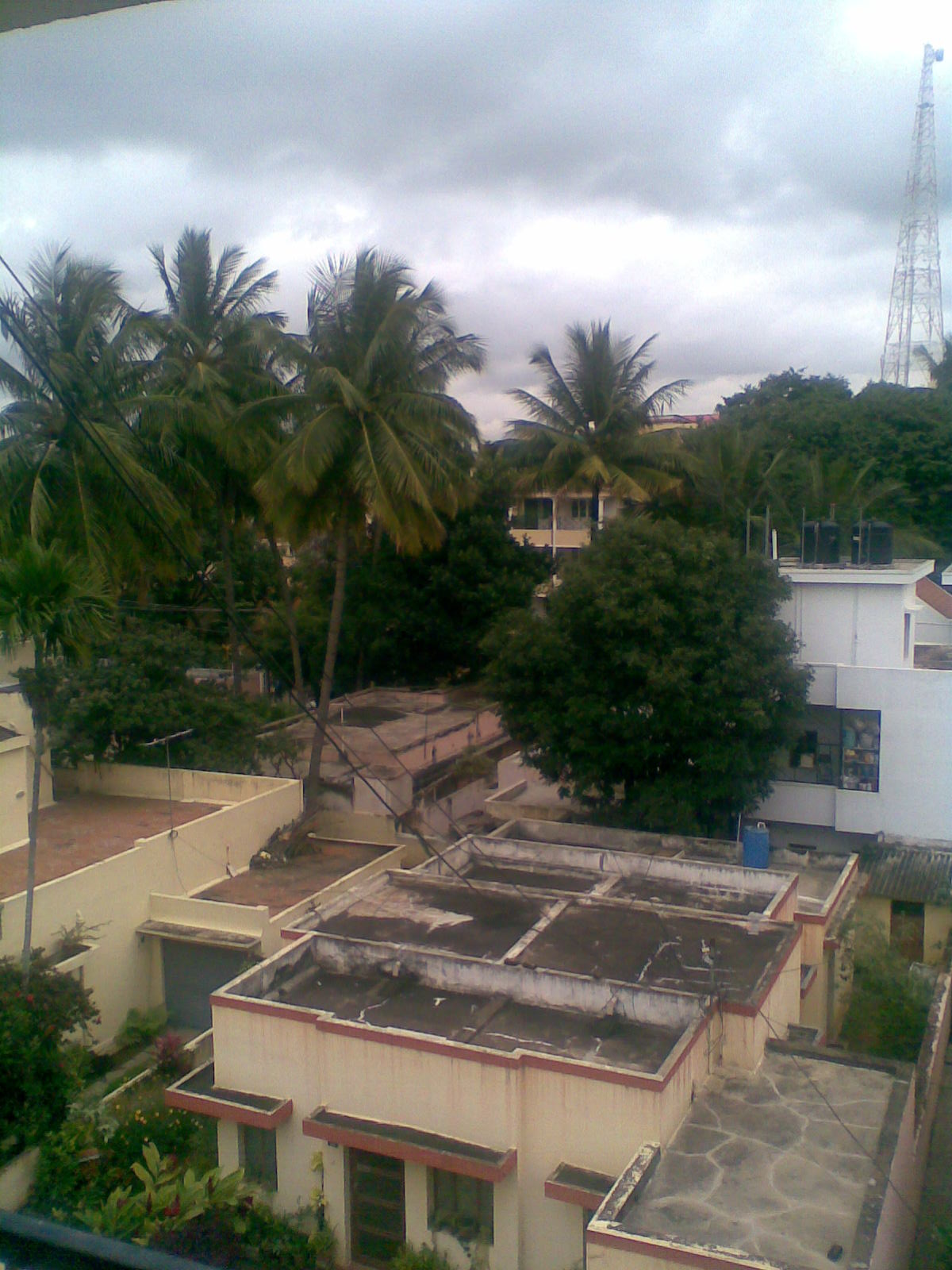 view of Cooke town in Bangalore